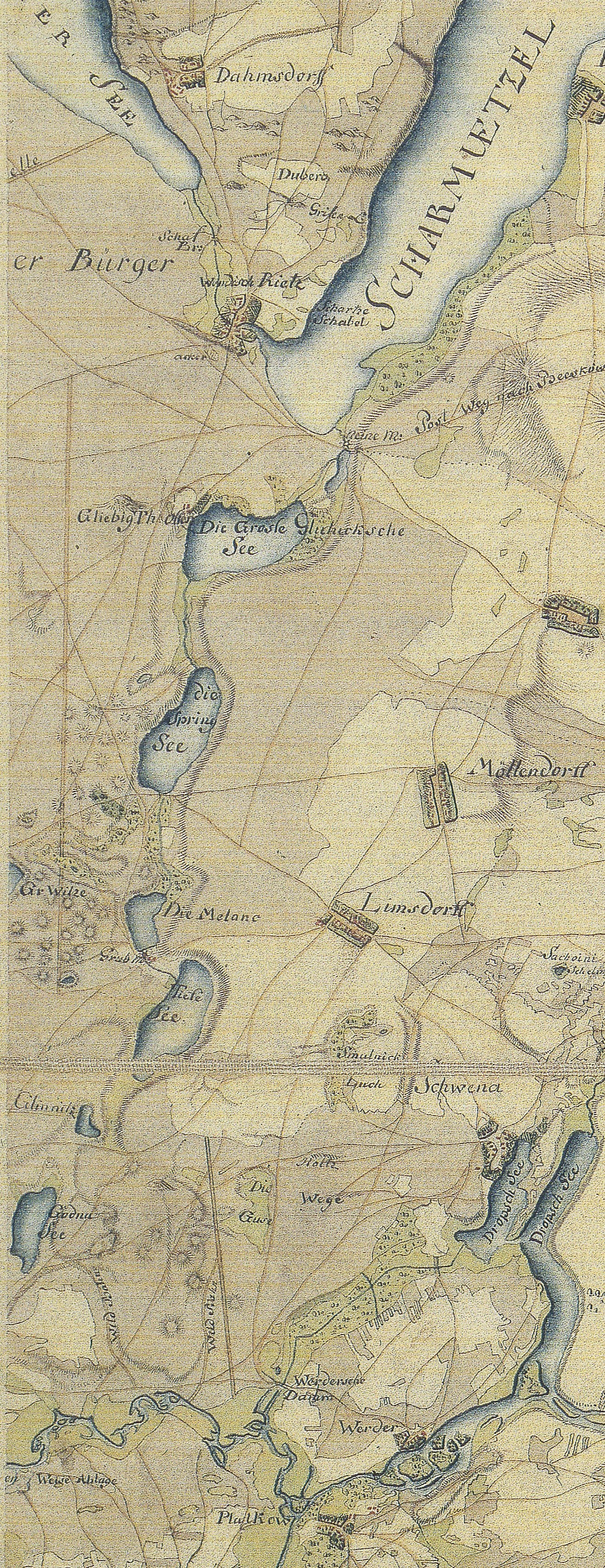 Middle and southern part of the Scharmützelsee-Glubigseen-Rinne (glacial tunnel valley of lakes) in a Schmettau map from 1767/87 (map extract). The valley is situated in the District Oder-Spree, Brandenburg, Germany.